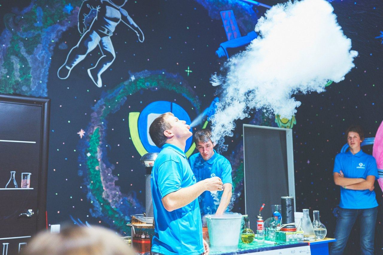 liquid nitrogen from the mouth